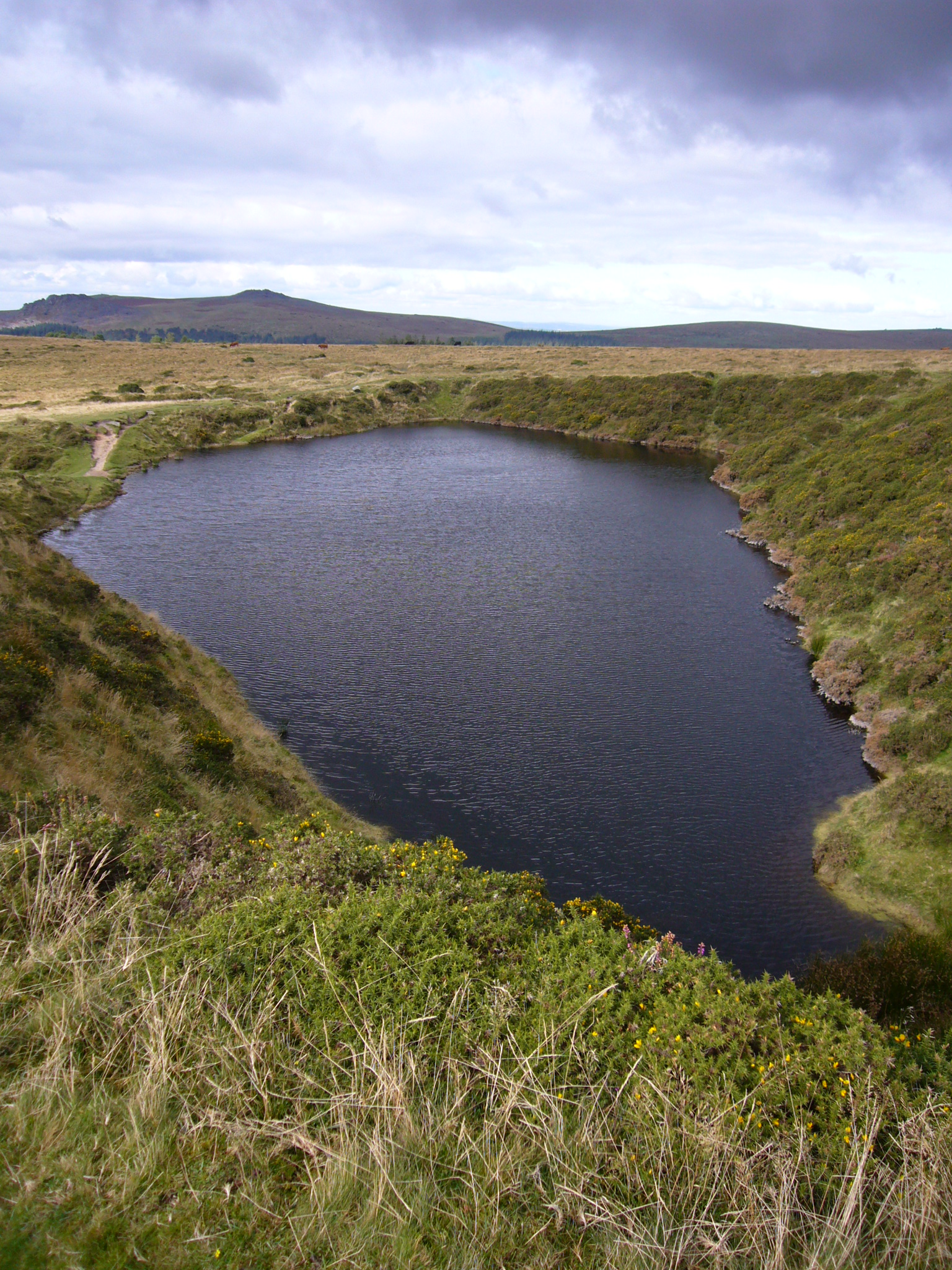 Crazywell Pool on southern Dartmoor. This is likley to be the remains of tin working is some way.